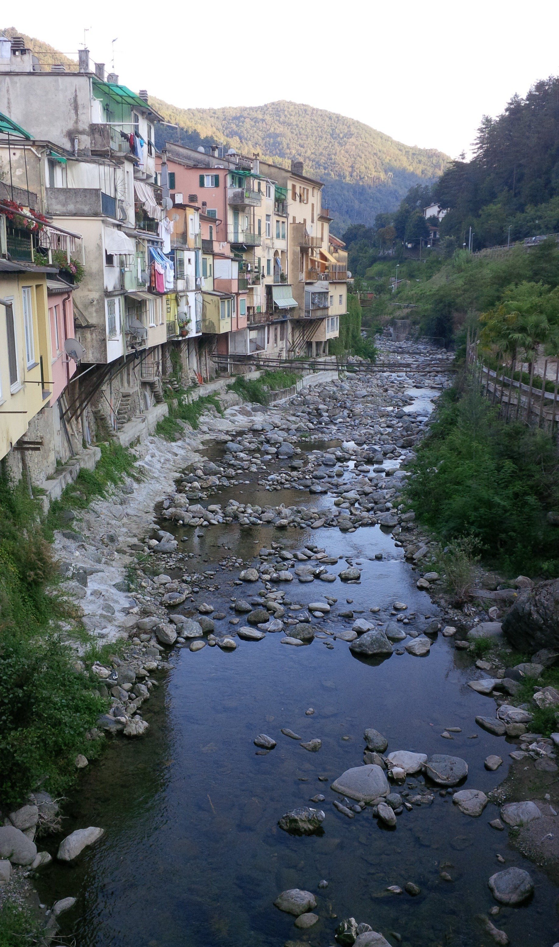 View in Borzonasca, Italy